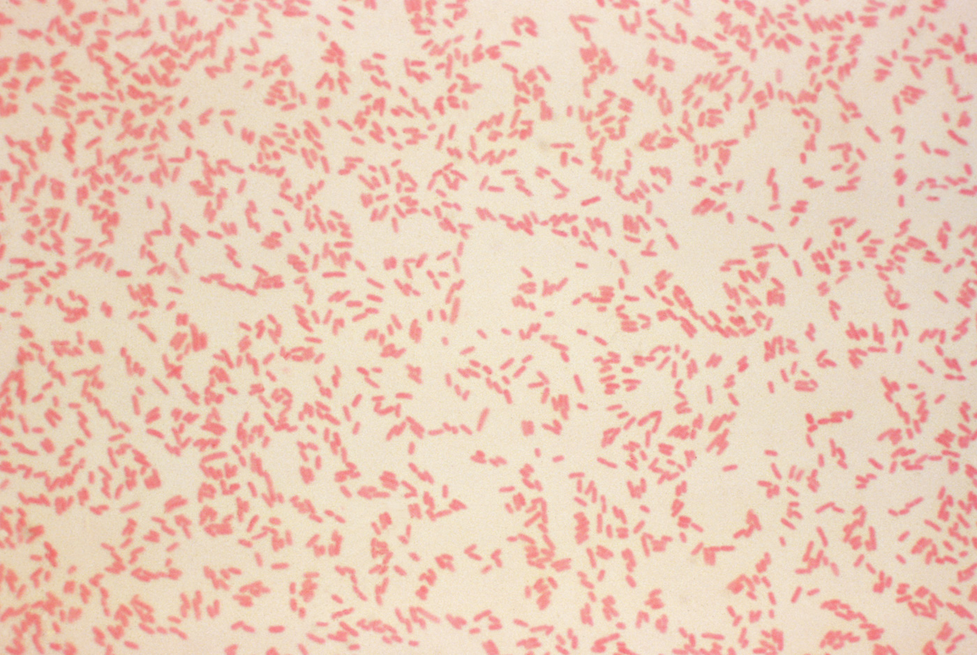 A photomicrograph of a gram-stained culture revealing the presence of numerous gram-negative Yersinia enterocolitica bacteria.